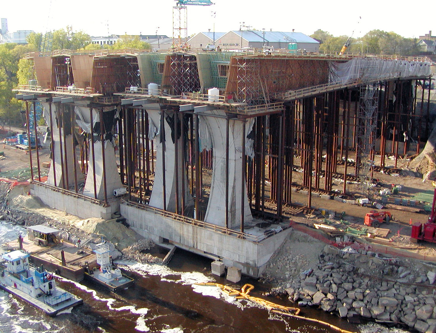 St. Anthony Falls (35W) Bridge pier, north side